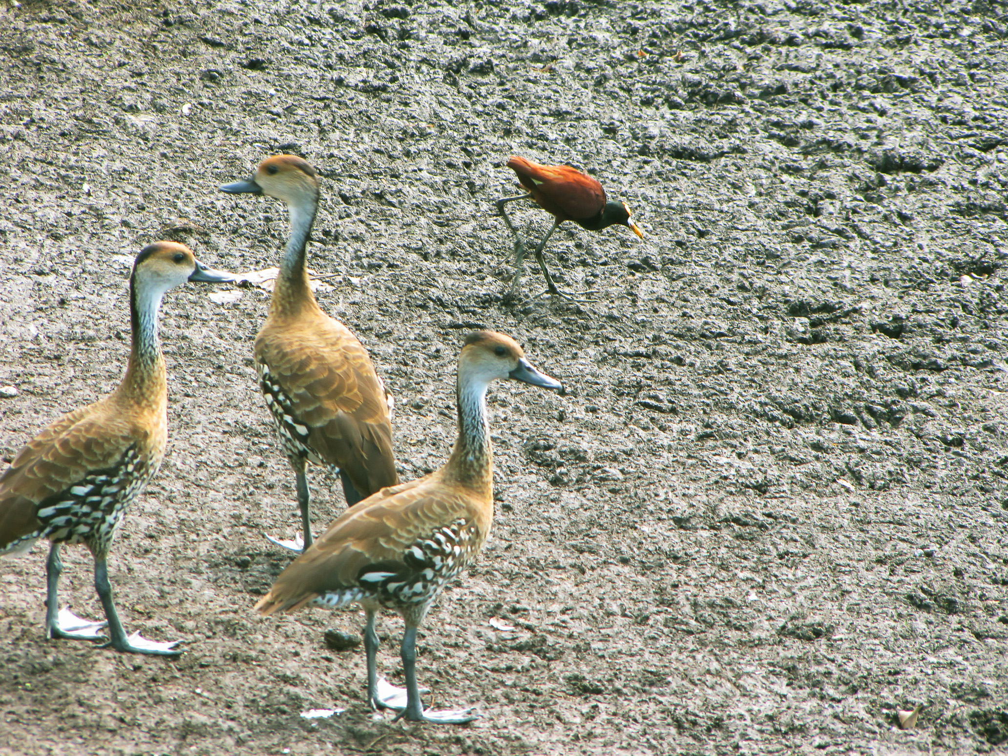 West Indian Whistling ducks and a Jacana in the Royal Palm reserve near Negril, Jamaica, West India